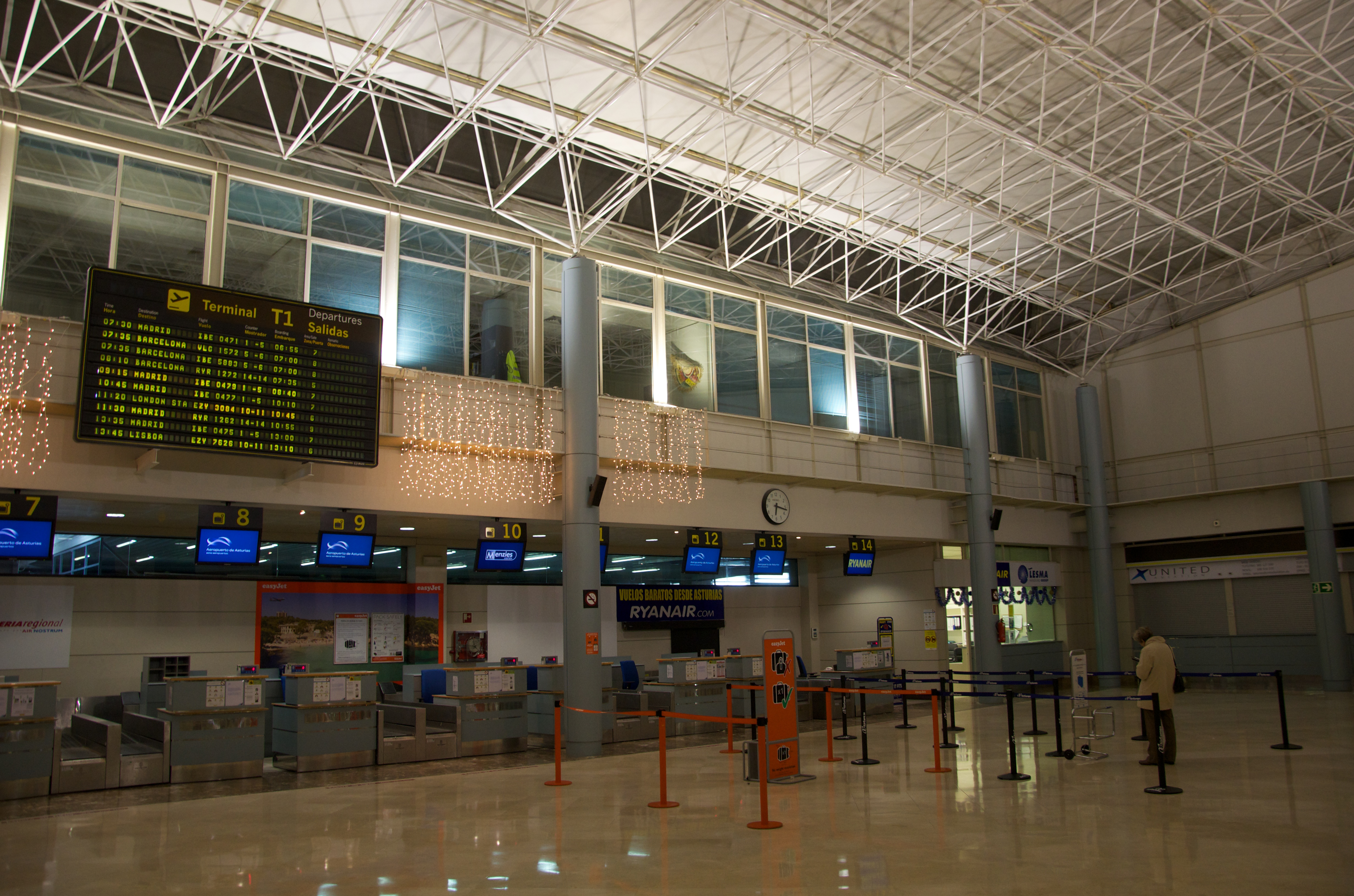 Interior of the Check-in hall at Asturias Airport.